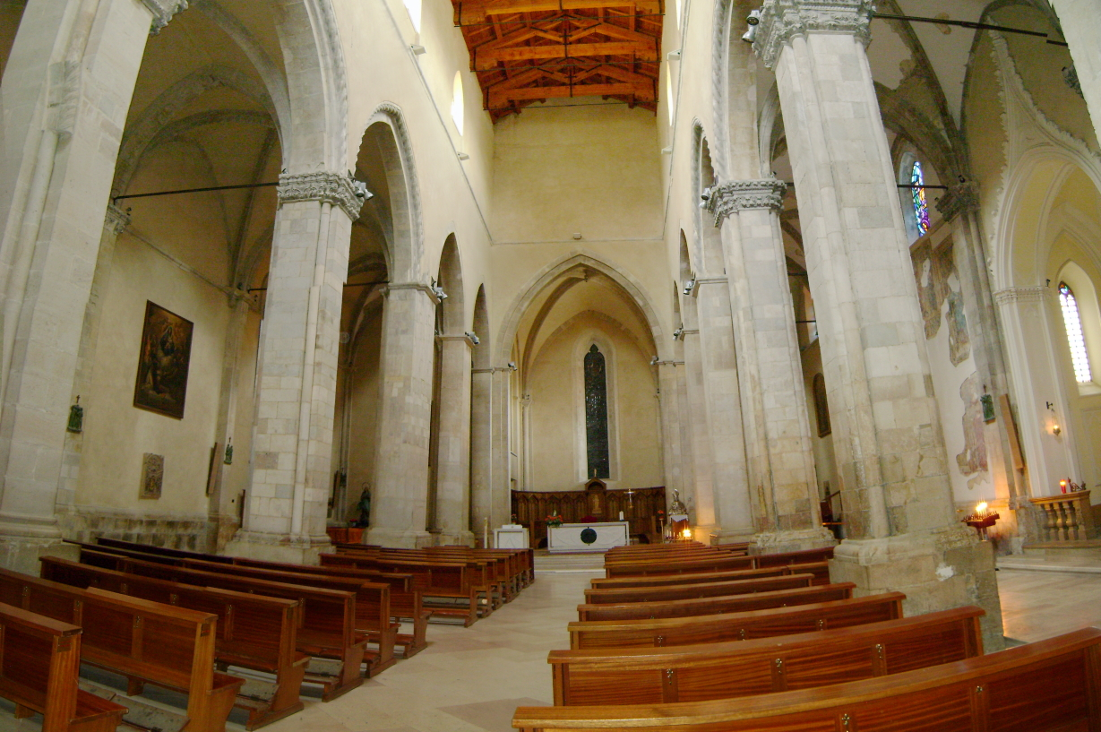 The interior of the cathedral of Larino, in the province of Campobasso, in Molise